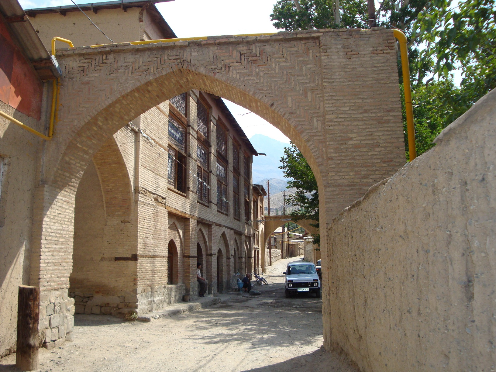 Sarshahar Mosque in Ordubad, Azerbaijan. Built in the 18th century.